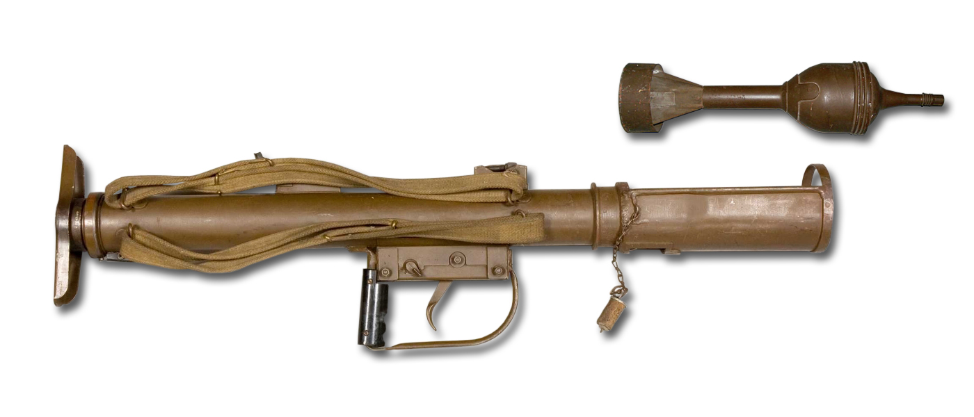 The Projector, Infantry, Anti Tank (PIAT) Mk I was a British man-portable anti-tank weapon developed during the Second World War. The PIAT was designed in 1942 in response to the British Army's need for a more effective infantry anti-tank weapon and entered service in 1943. The PIAT was withdrawn from service in the early 1950's. The PIAT in the photo is part of the collections of the Swedish Army Museum. + PIAT projectile at Canadian Military Heritage Museum in Brantford, Ontario